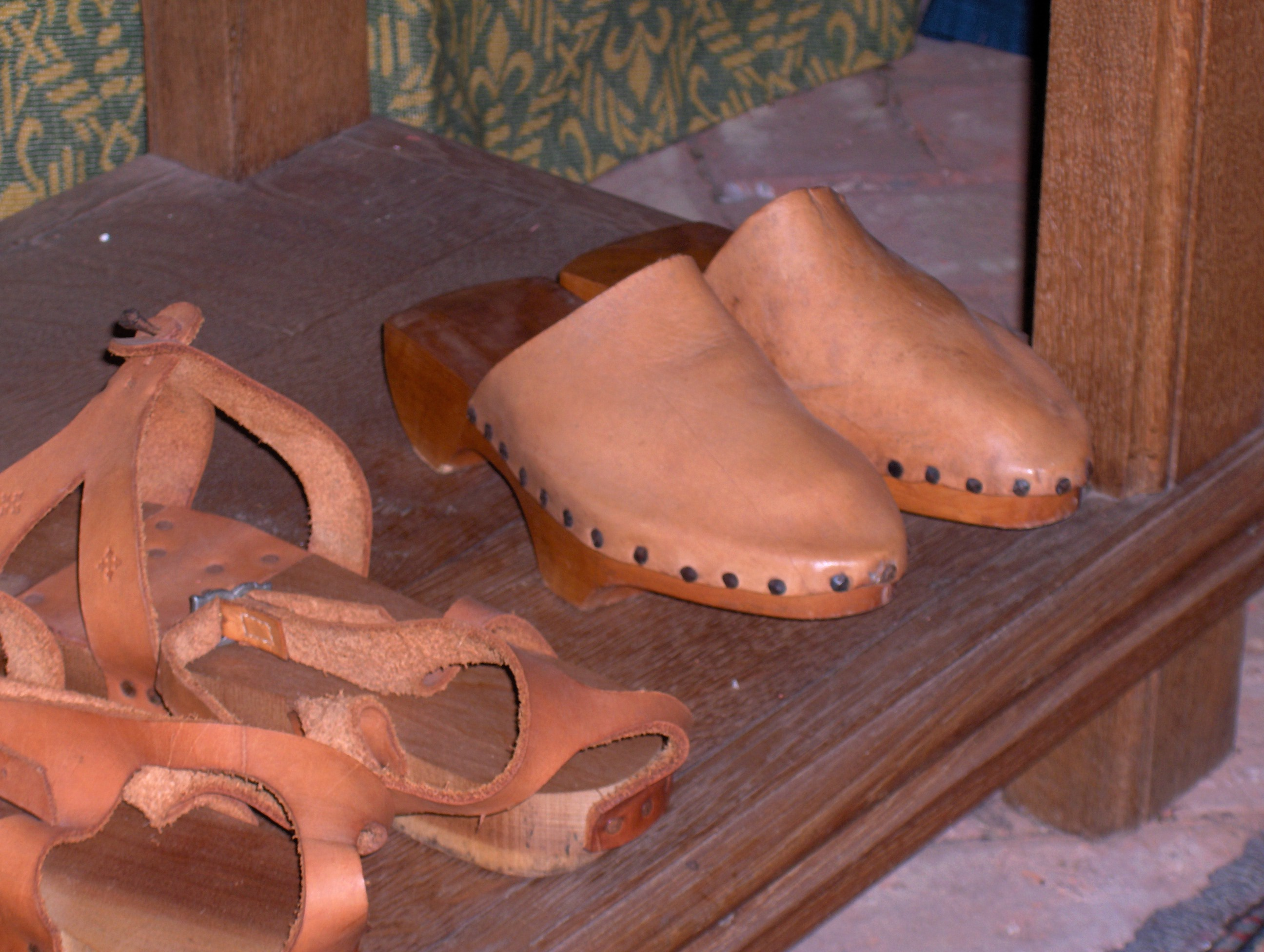 pattens (15th-16th c.)